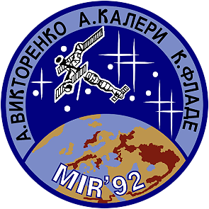 The official crew patch for the Russian Soyuz TM-14 mission, which delivered the Mir EO-11 crew and Klaus-Dietrich Flade (MIR'92) to the space station Mir.